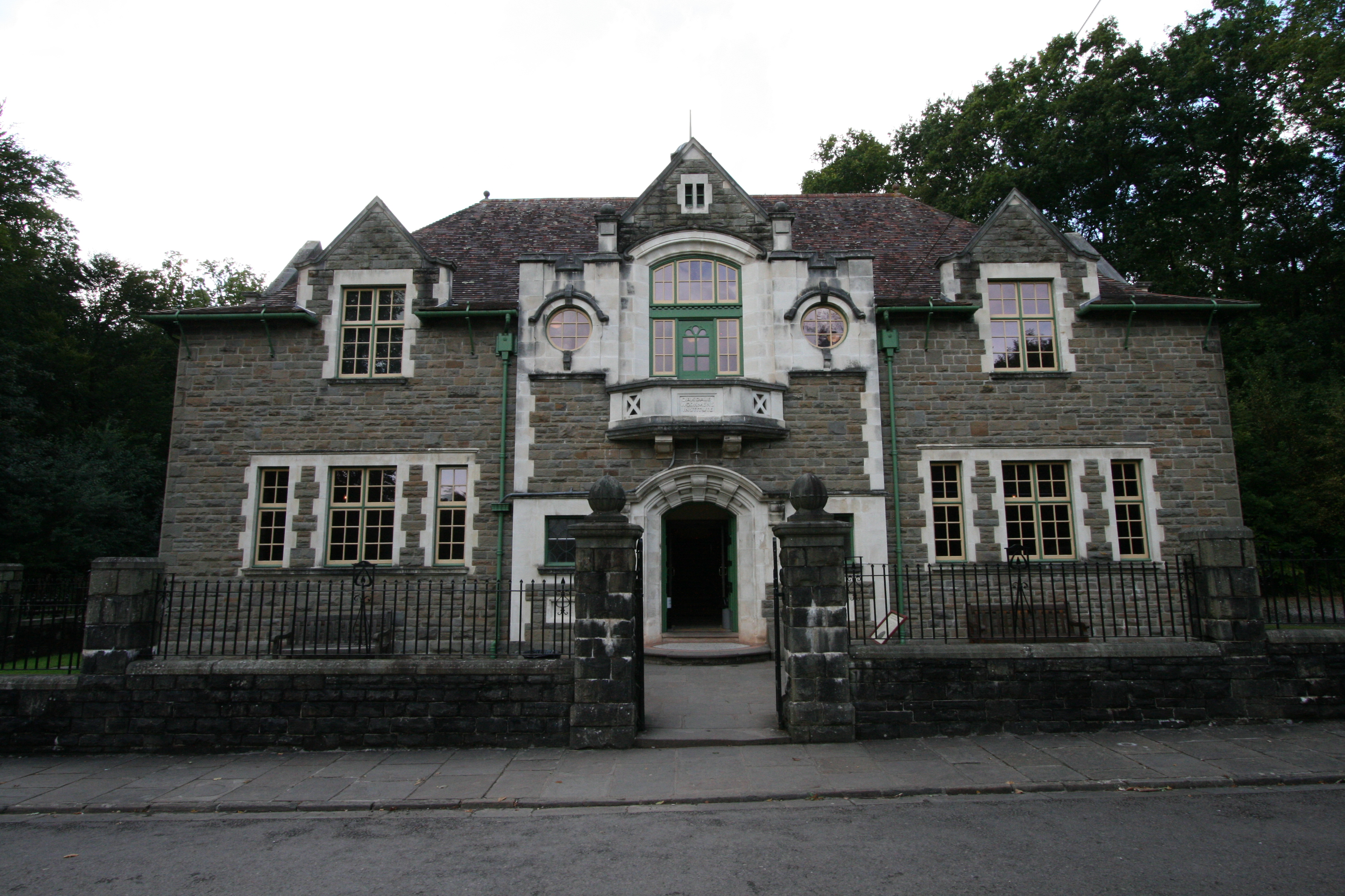 Oakdale Workmen's Institute, now situated at St Fagan's National History Museum, Cardiff